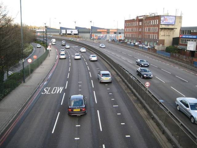 Neasden: A406 North Circular Road The North Circular Road began life in the 1920s as development spread out through north-west London and it has always been the A406. However in the 1960s the Greater London Council proposed plans to construct a series of high-speed circular and radial motorways throughout London to ease traffic congestion. Under these plans the North Circular Road was designated to become the northern section of a circular route known as Ringway 2, being the second inner of the four proposed Ringways. It was planned that it would eventually be upgraded to a motorway, provisionally designated as the M15. These plans were cancelled in 1973. In this view the 40mph speed restriction is enforced with cameras, while the new landmark of the four wind turbines at the Great Central Way exit is visible in the distance. Beacon House is to the right. Another observation - of the 19 cars visible in this photo, 14 are silver, 4 are black, and the only one that appears to be different is the one in the foreground that appears to be a dark purple colour, a sign of changing preferences by the car-buying public.